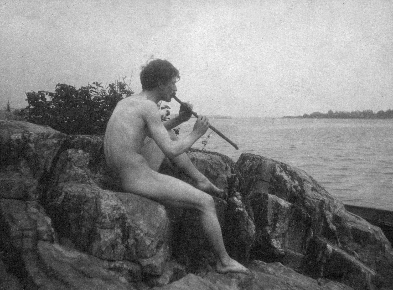 Photograph taken 1885—1900. Digitally enhanced version of File:Man posed on rocks, nude, playing pipe (Pan), photograph by Frances Benjamin Johnston - LoC 04880u.jpg. The original cyanotype (which is made in cyan-blue colour) has been desaturated and the image corrected for minor damage marks.